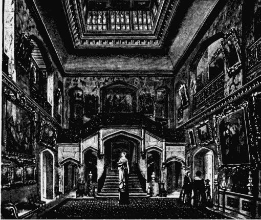 The Saloon, Harrington House (13 Kensington Palace Gardens)